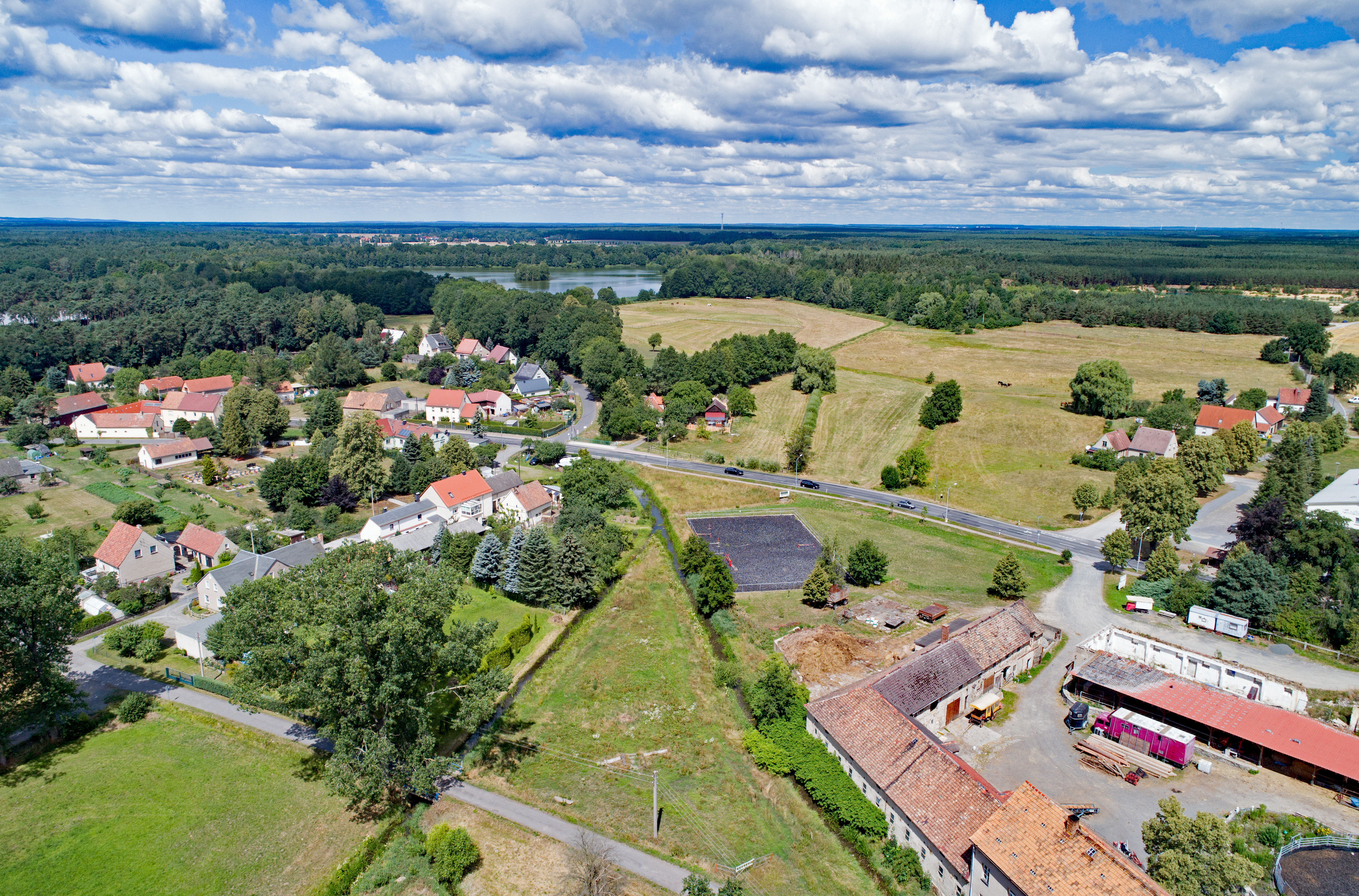 Großgrabe (Bernsdorf, Saxony, Germany) Hornjoserbsce: Powětrowy wobraz Zalěskeje rěčki w Hrabowej pola Njedźichowa